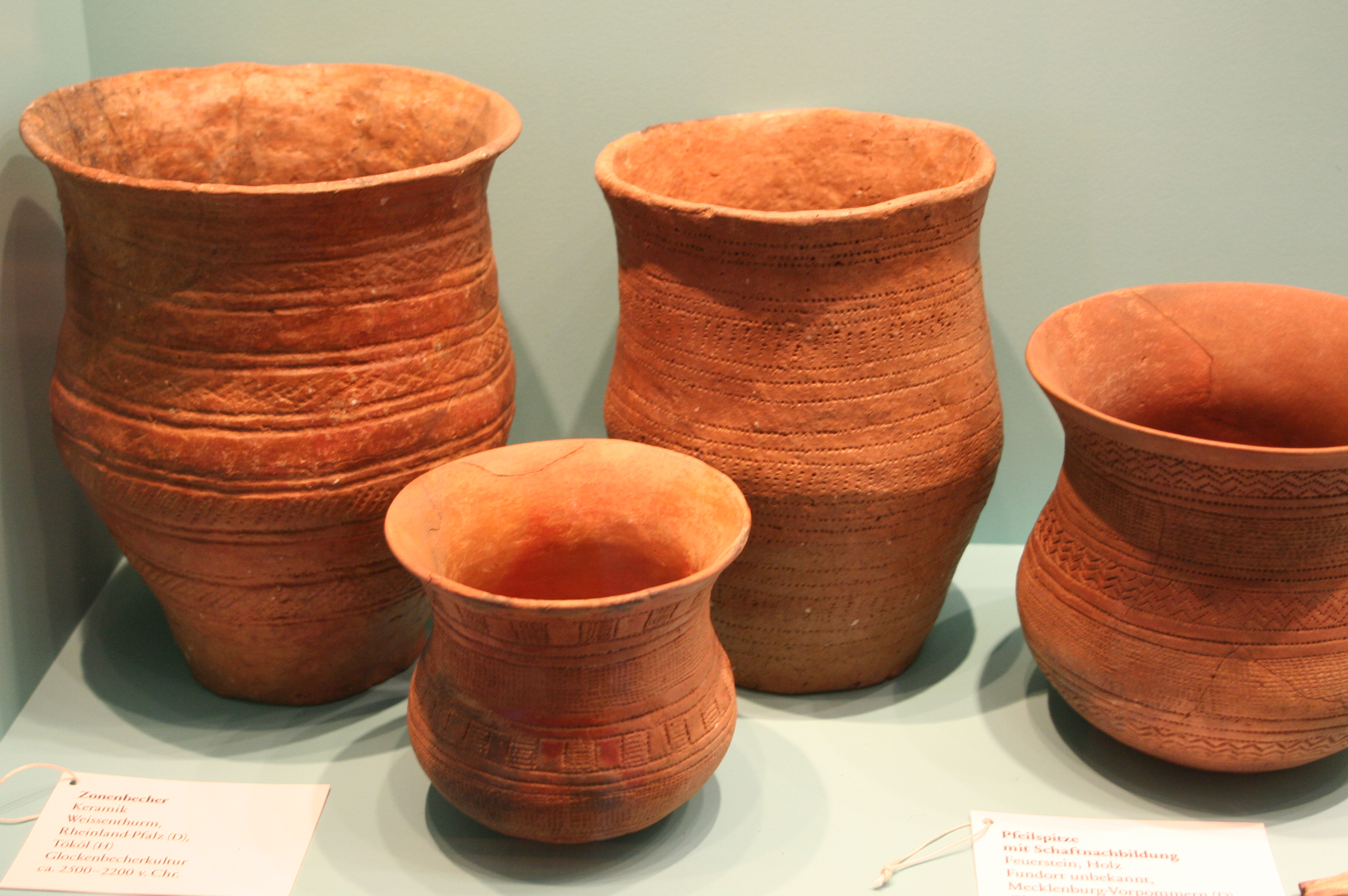 For description, see File:Museum für Vor- und Frühgeschichte Berlin 026a.JPG. Museum für Vor- und Frühgeschichte (Museum of prehistory and early history), Berlin.